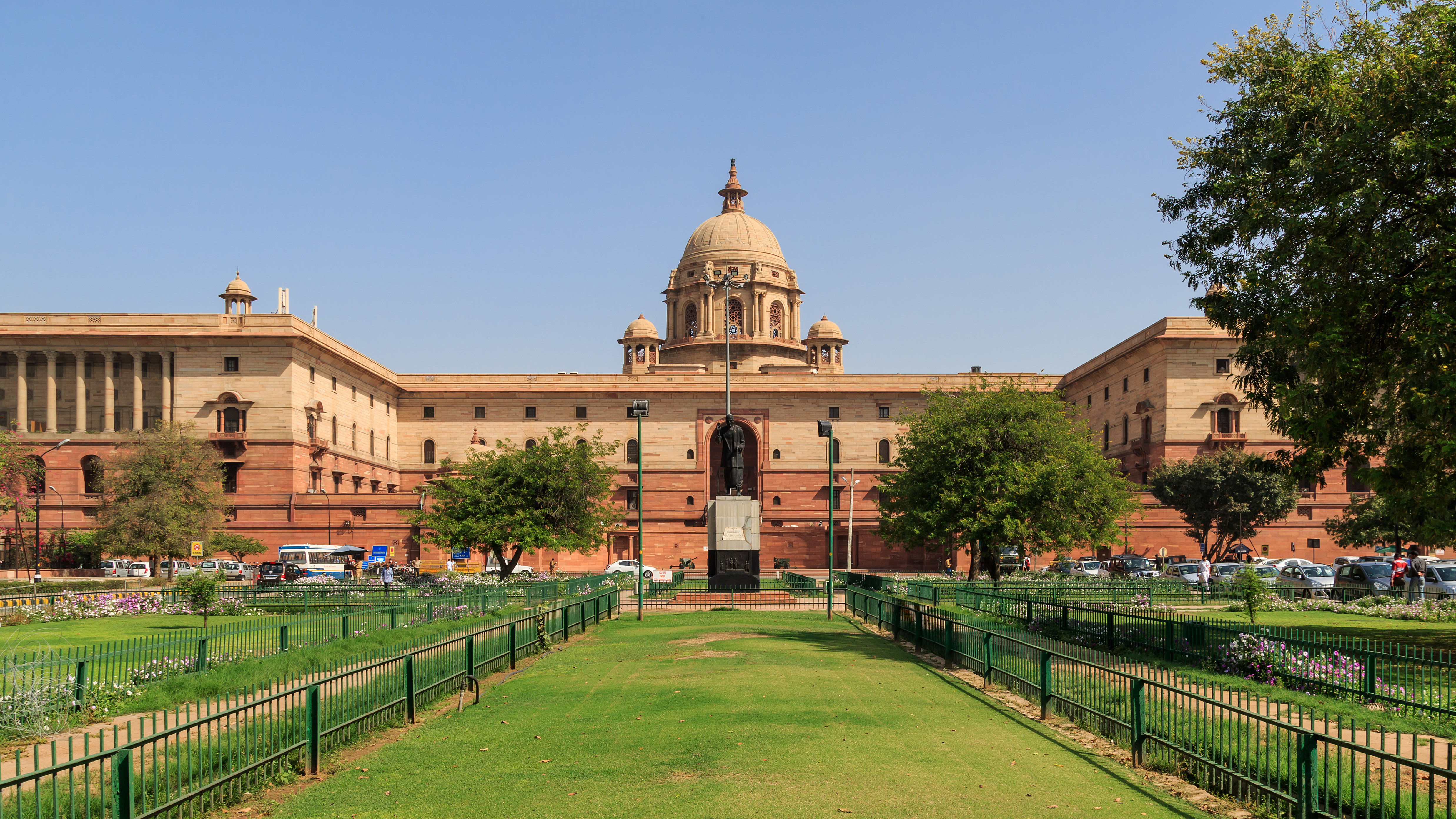 Ensemble of Government buildings on Rajpath in New Delhi, India